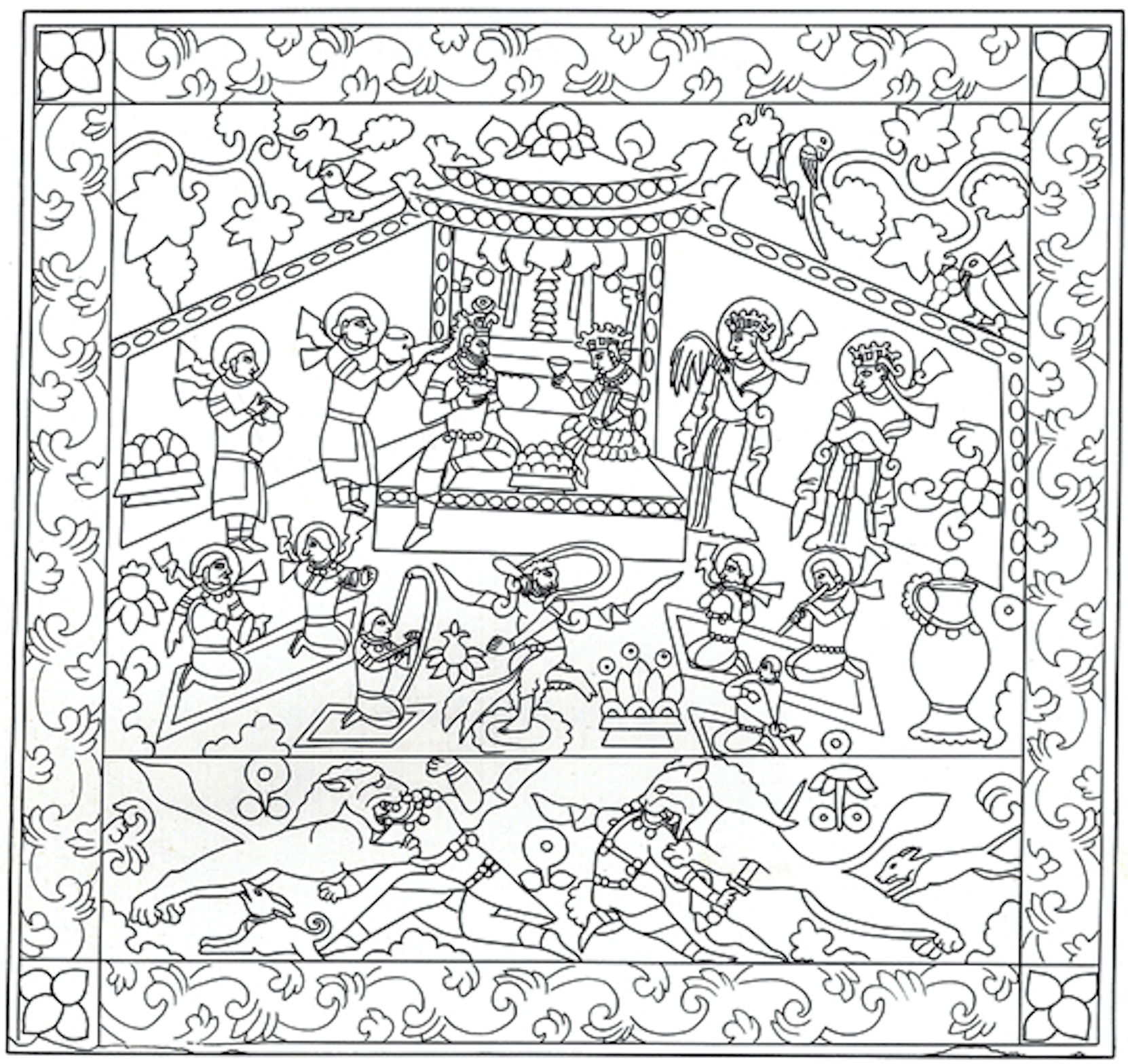 Line drawing of the panel 5 of the sarcophagus of Yü Hung.